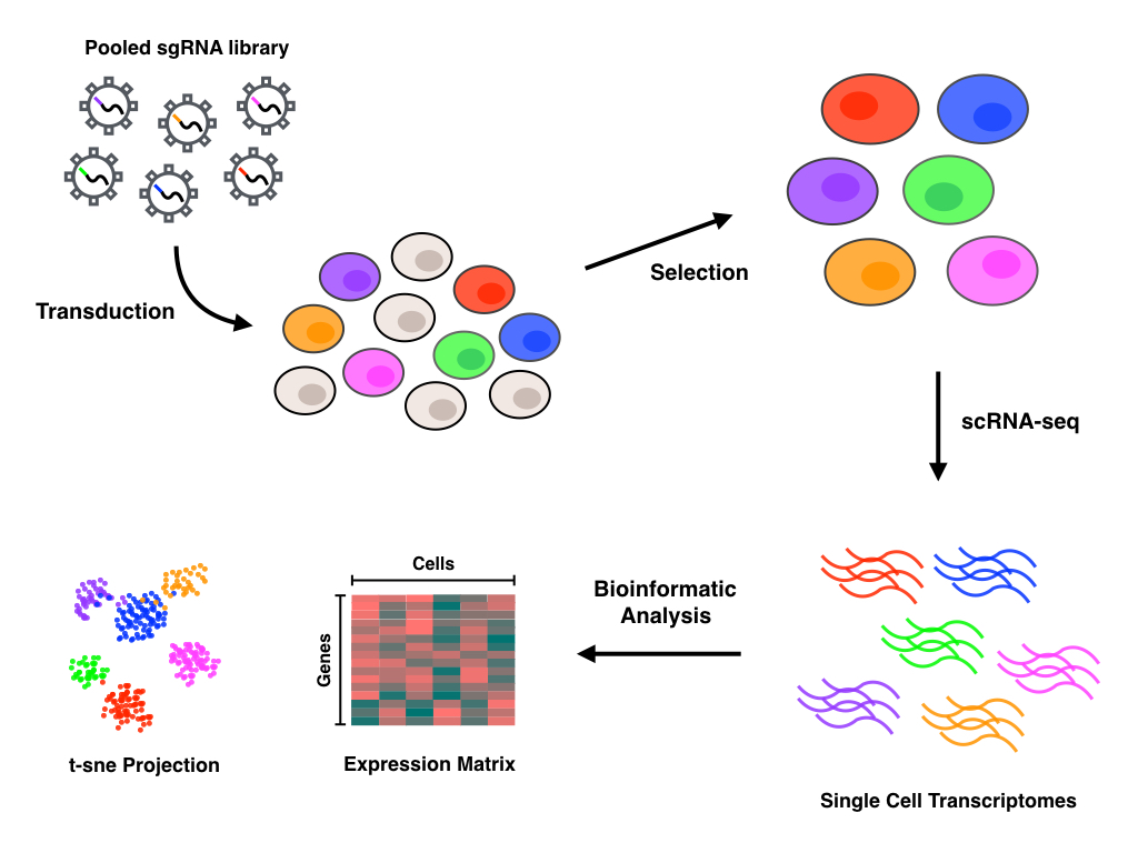 Figure depicting a simplified schematic of the Perturb-seq protocol